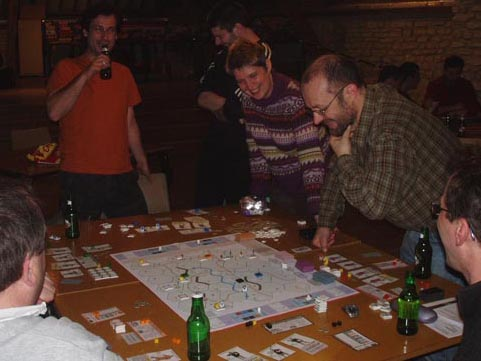 Bruno Faidutti testing "Warrior Knights"